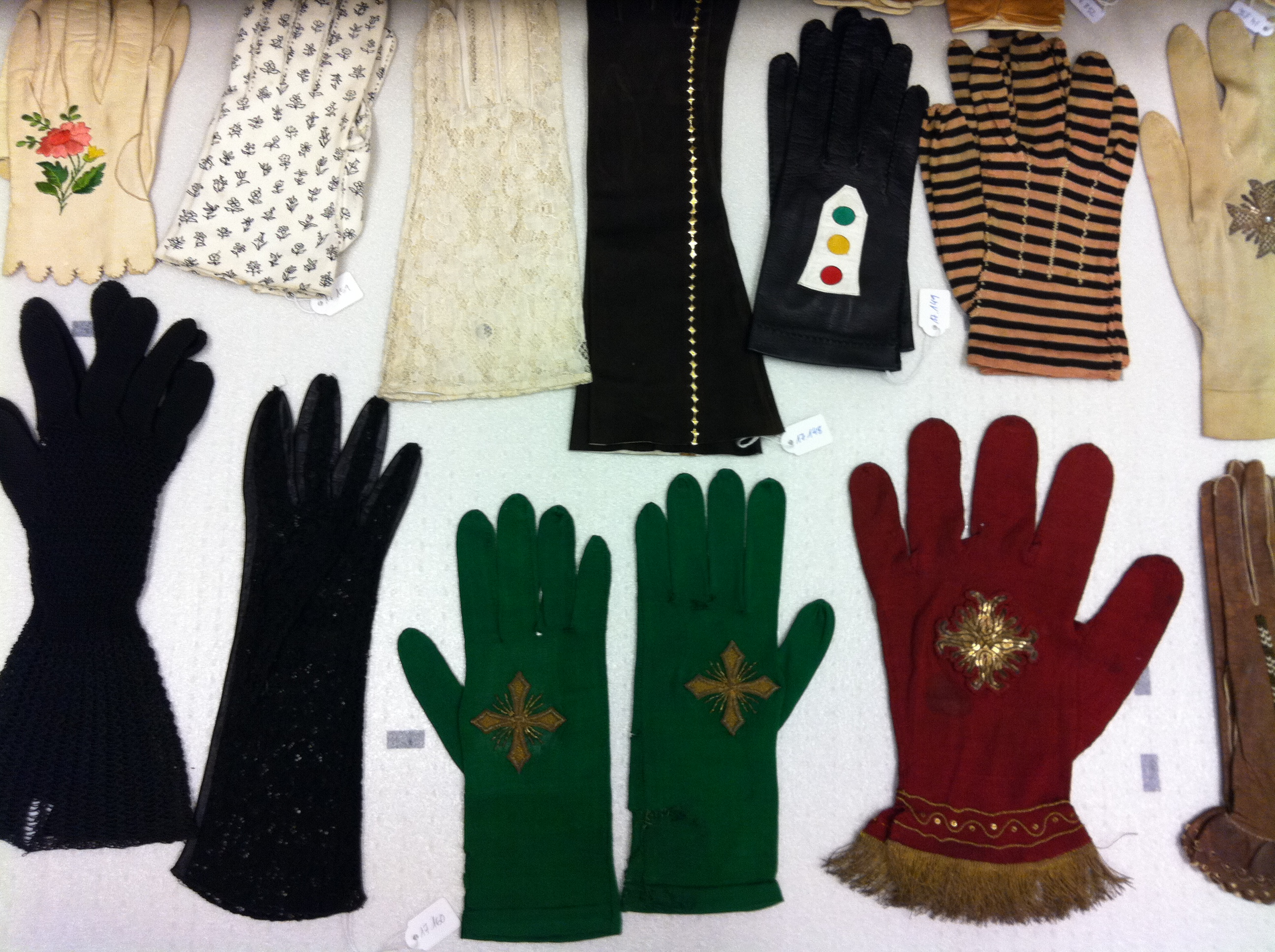 Documentation Center and Textile Museum of Terrassa